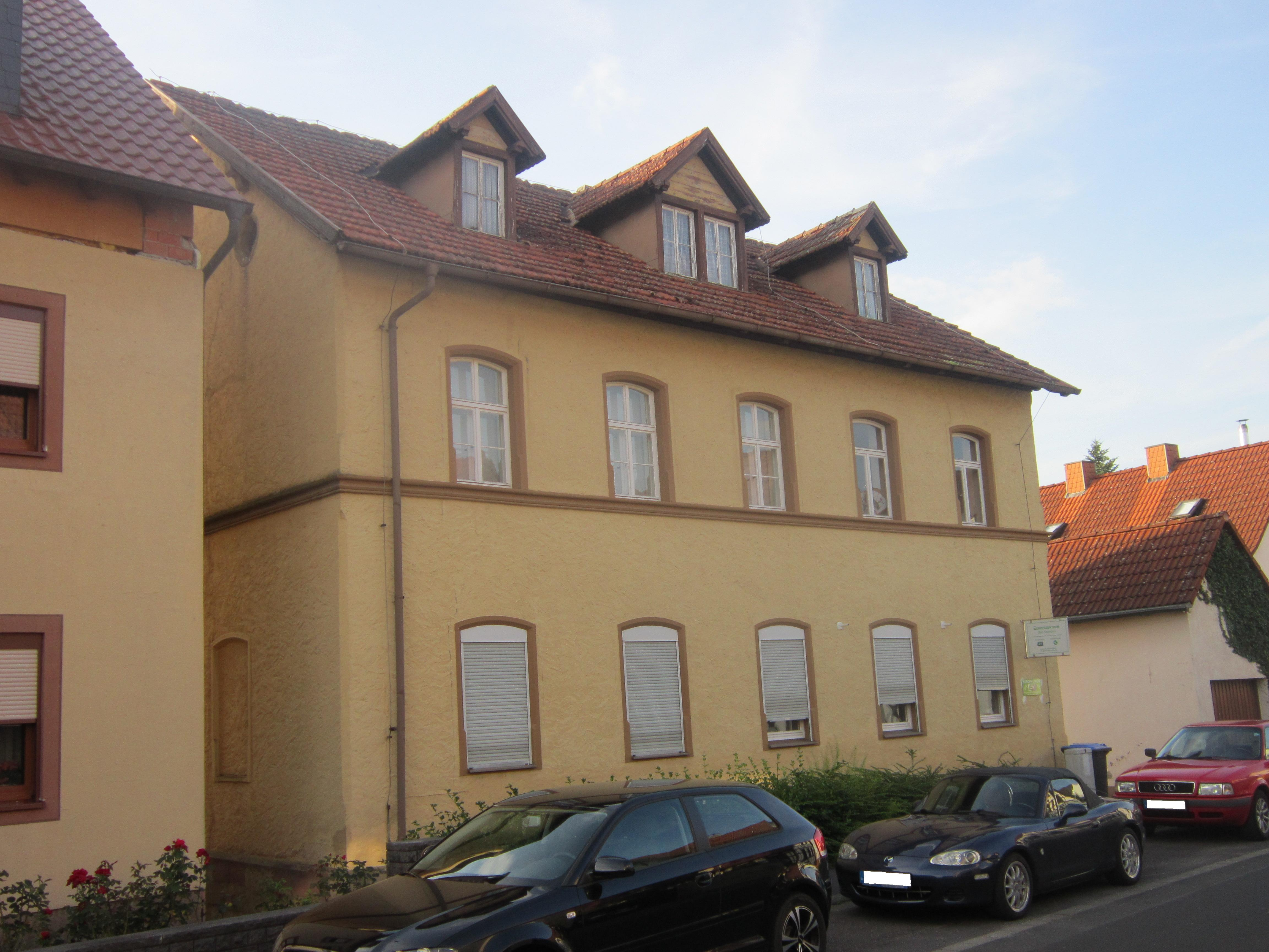 Former school in Hausen, a quarter of the German spa town of Bad Kissingen in Lower Franconia (Bavaria).